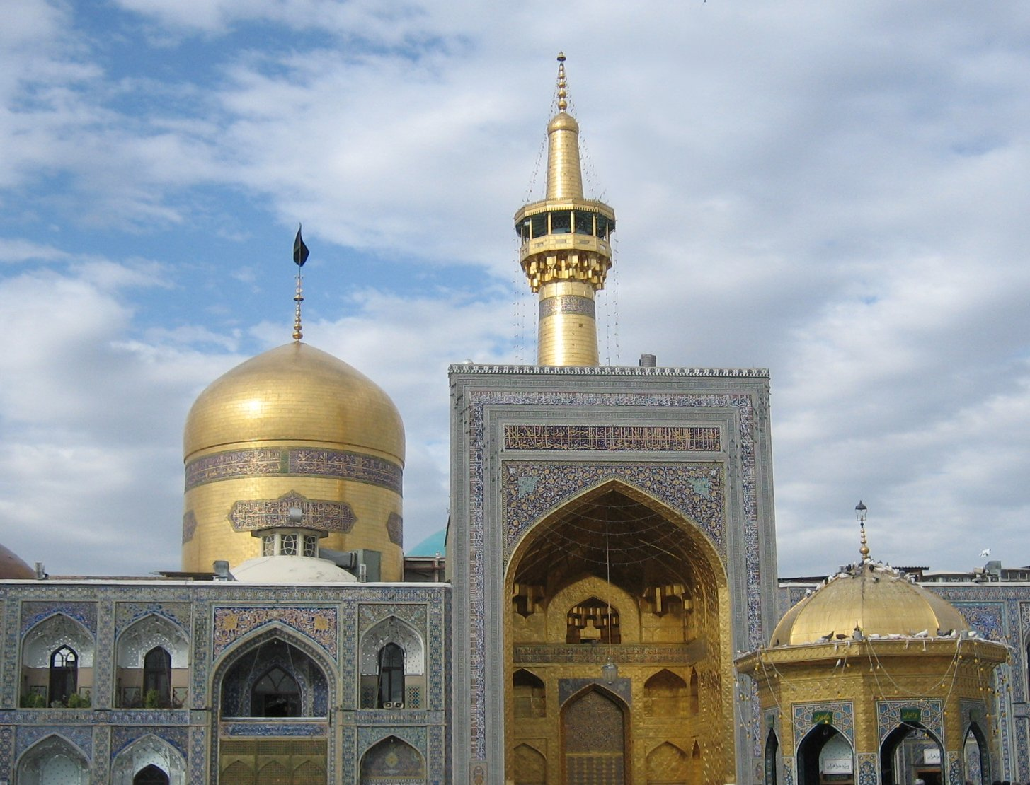 Shrine of Imam Reza in Mashhad, Iran.